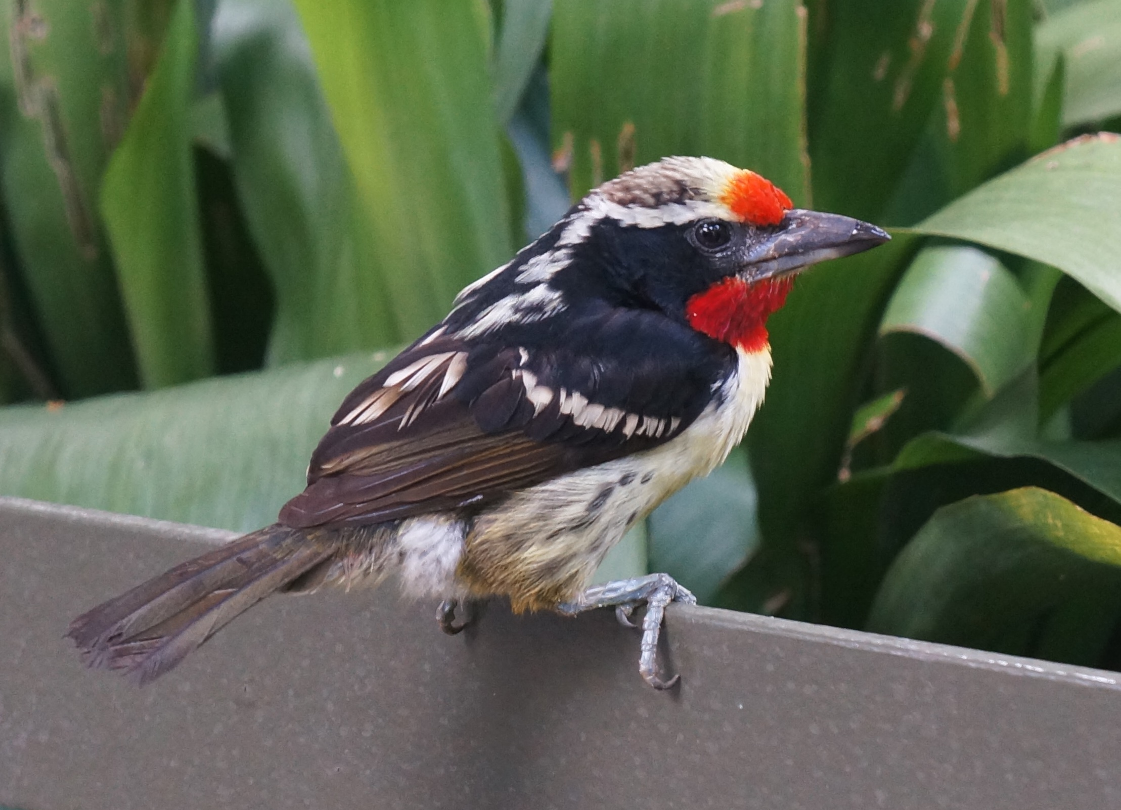 Capito niger at San Diego Zoo